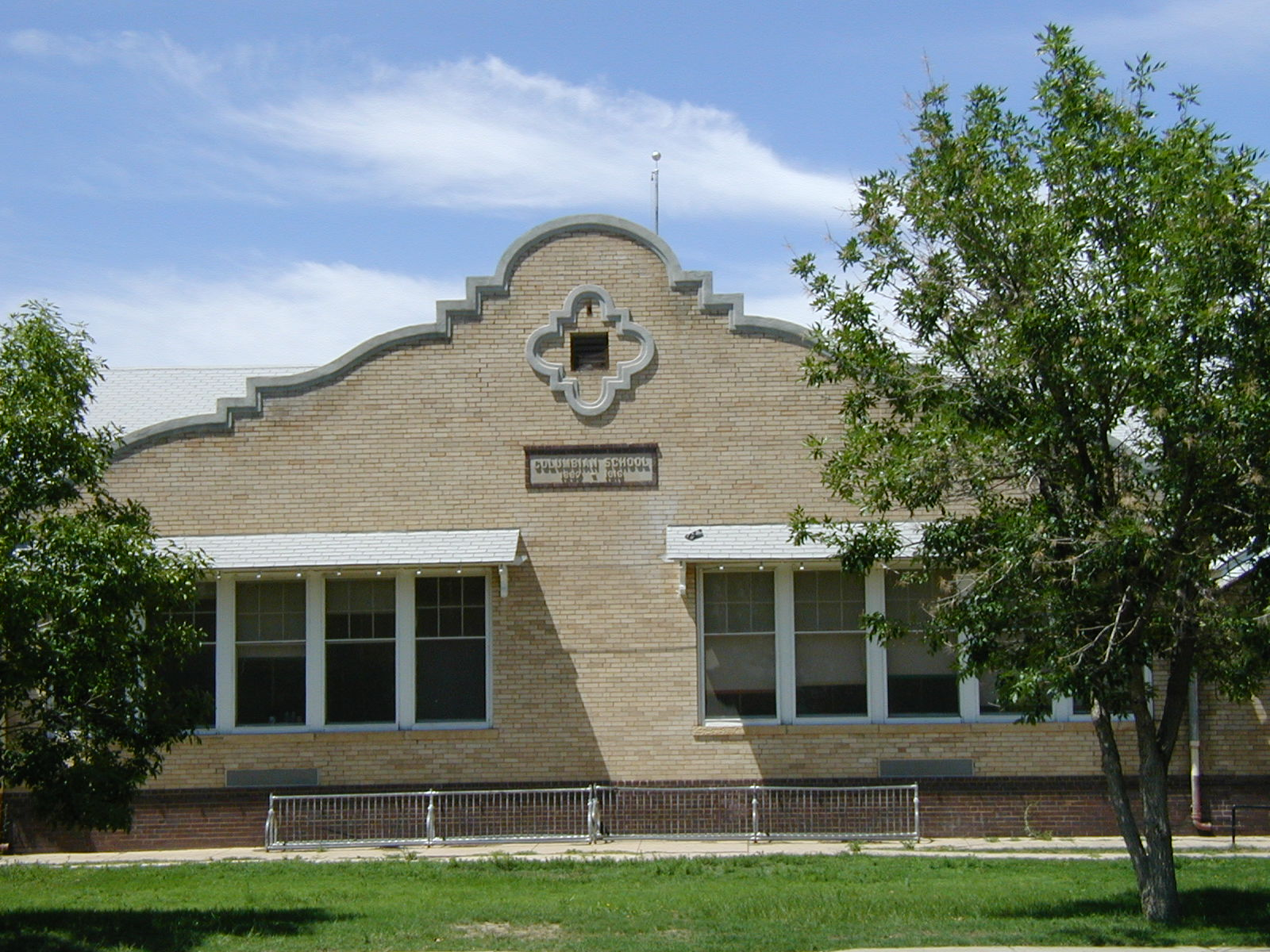 Matthew A. Chavez took this photo on April 6, 2005